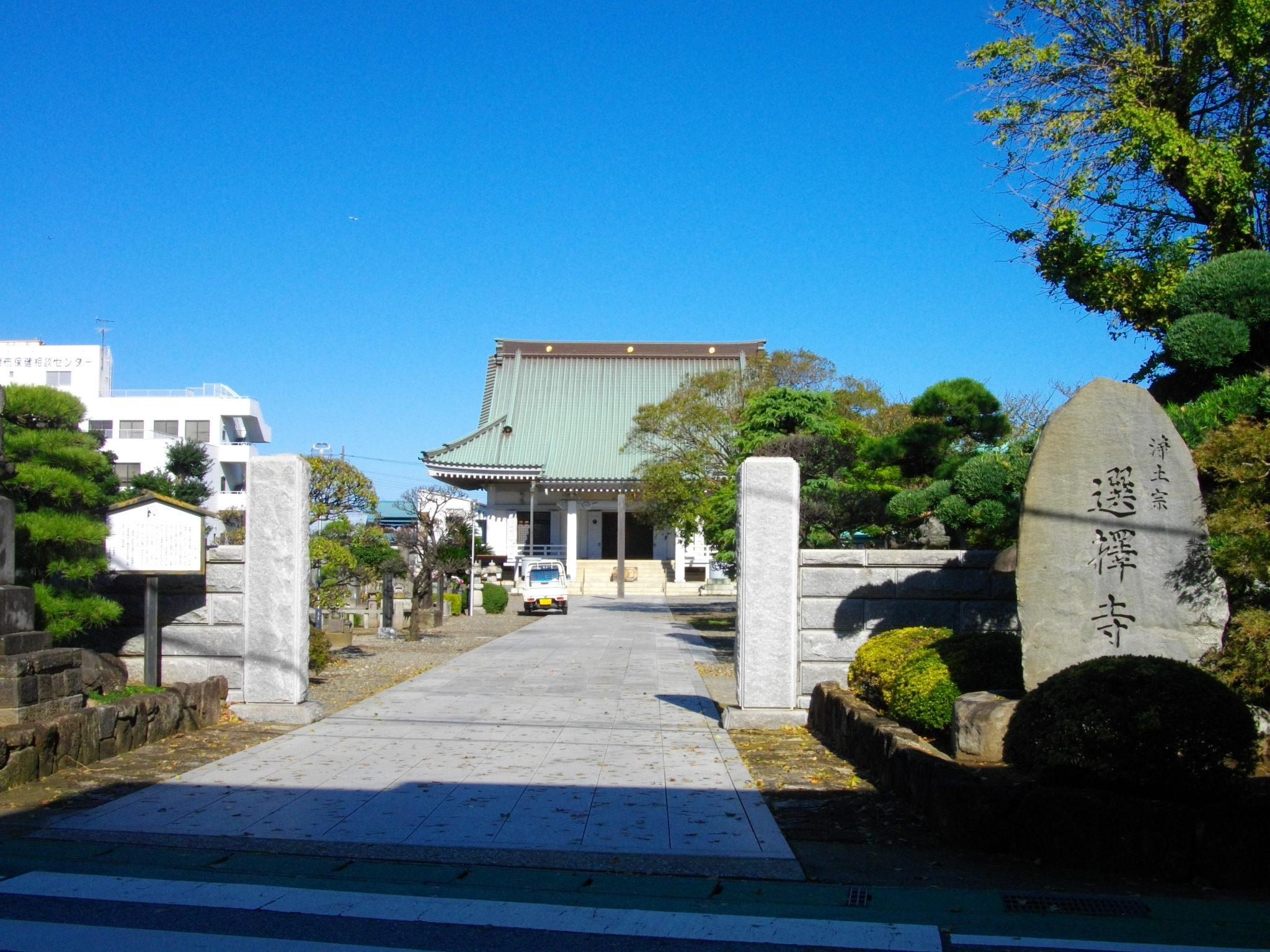 Senchaku-ji (Kisarazu)